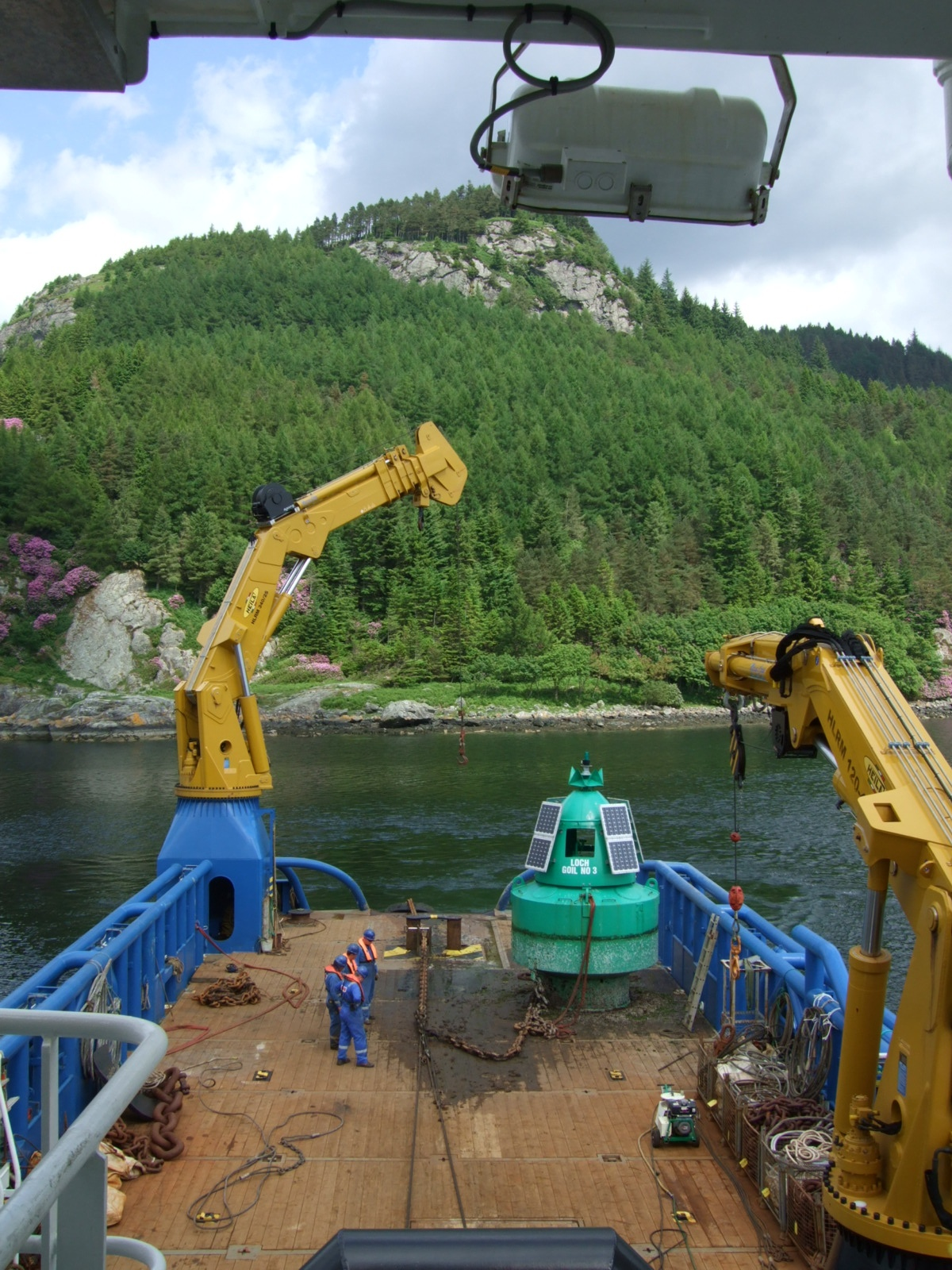 On deck of buoy tender.